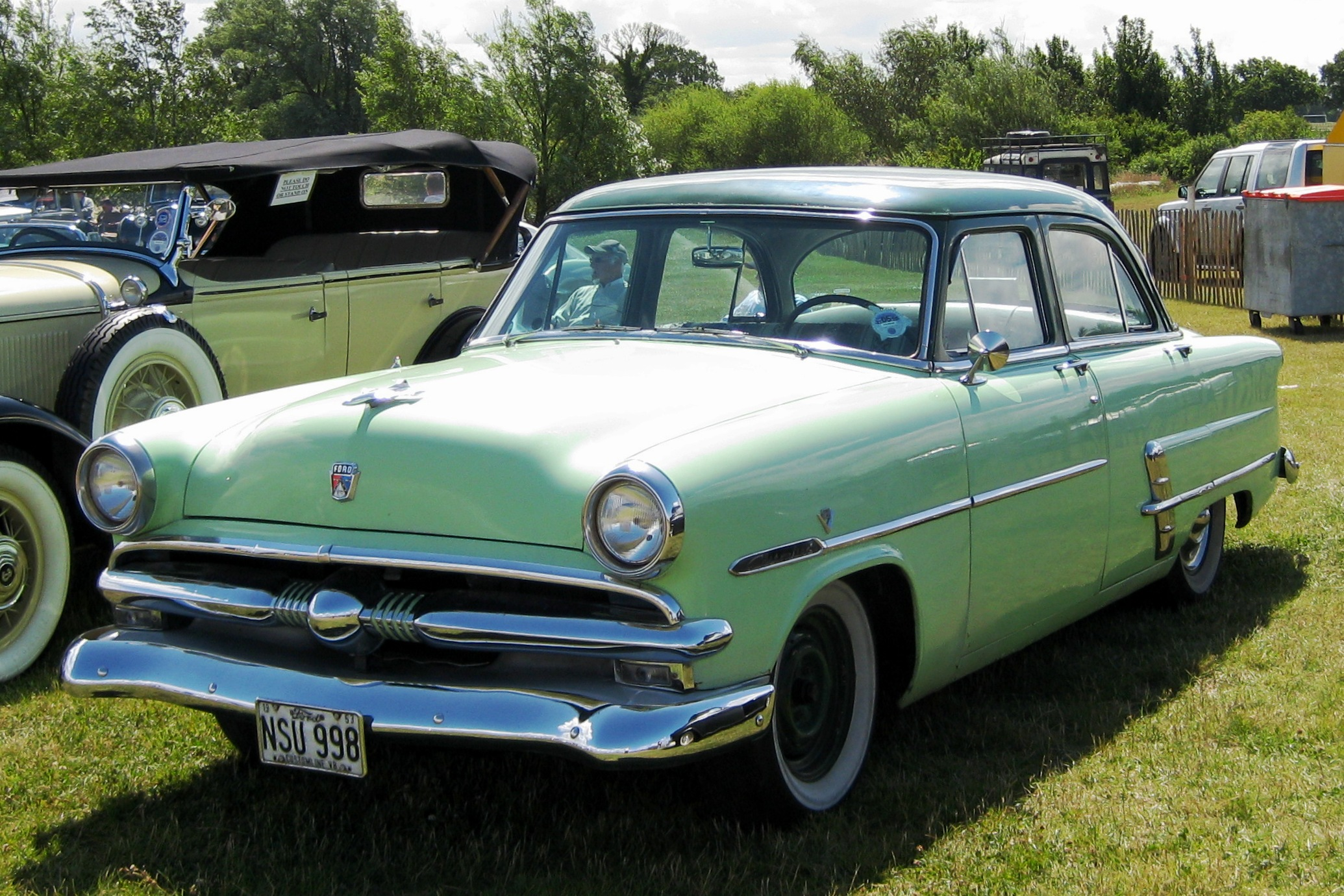 Ford Customline Fordor Sedan 1953. The car is photographed at a classic car show in south Essex, England, which is an area of particular enthusiasm and knowledge concerning Ford vehicles (albeit mostly UK built Ford vehicles) since the southern part of county contains/contained a major Ford manufacturing facility (Dagenham), a major administrative head office (Warley, Brentwood) and a research center (Dunton).